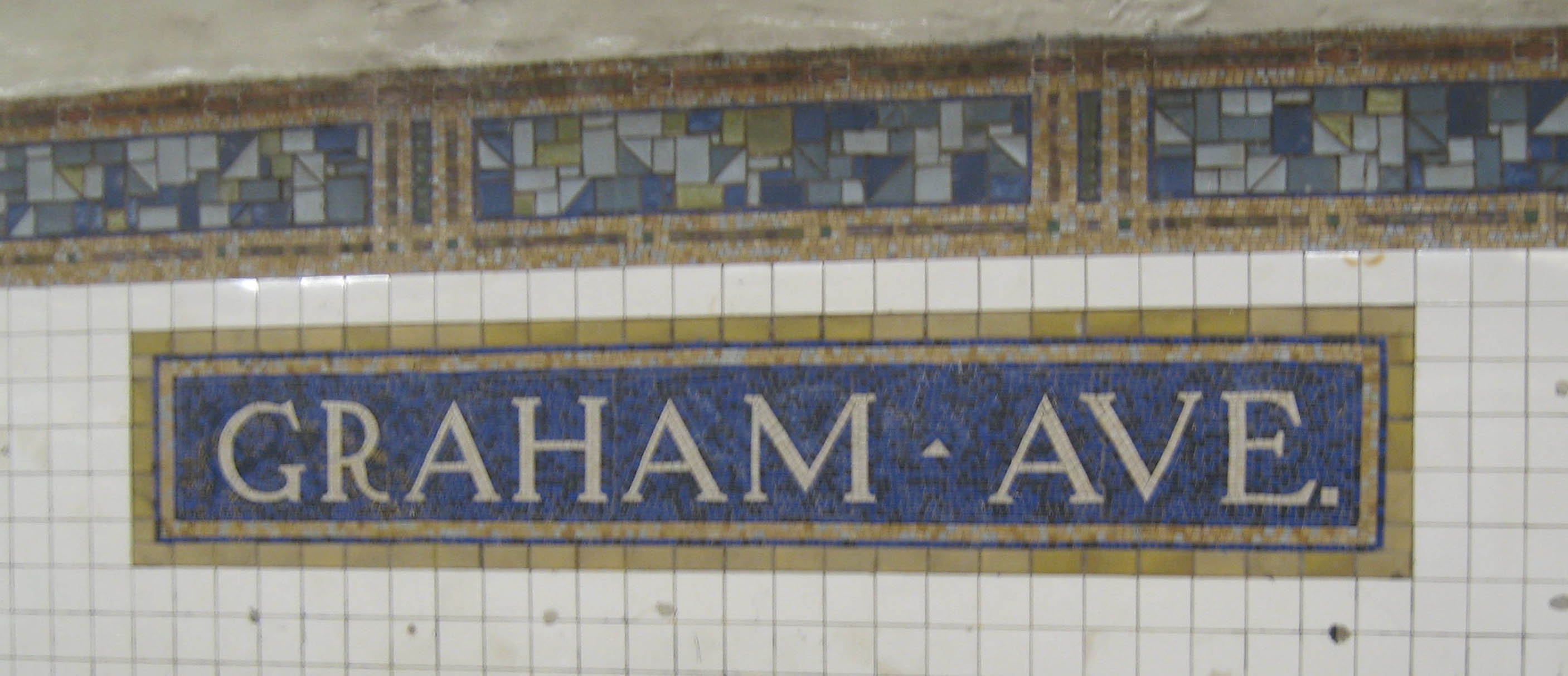 Looking south at station ID tile on southbound platform of Graham Avenue (BMT Canarsie Line).